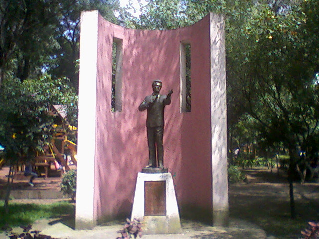 The statue of Jose Jose on Parque de la china, located in Claveria.